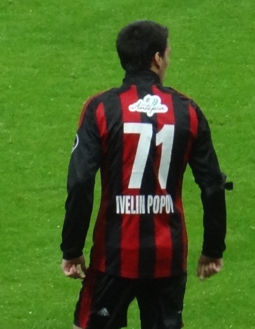 Ivelın Popov